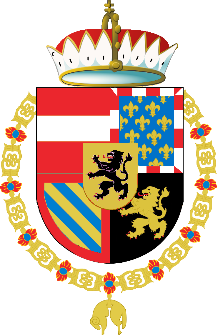 Coat of Arms of Philip the Handsome as Archduke, after his marriage